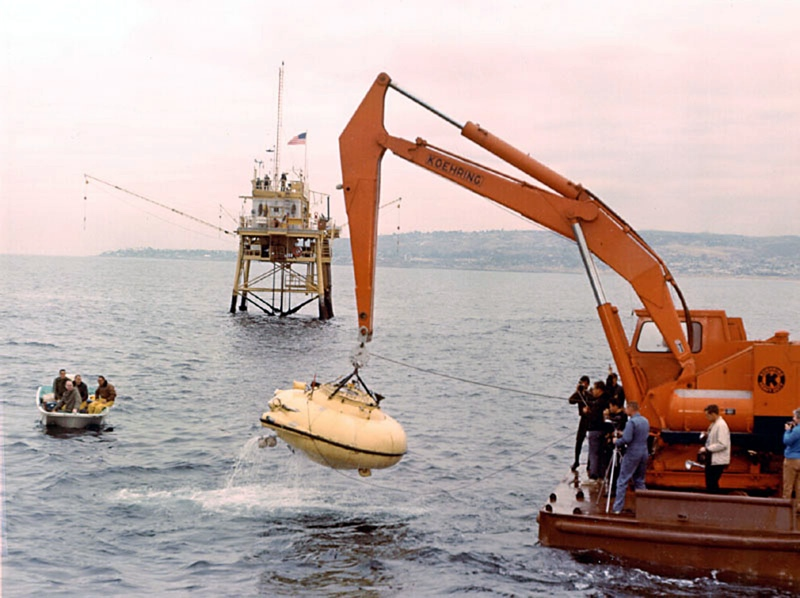 Cousteau's Diving Saucer SP-350 Denise ("SP" for soucoupe plongeante -French for "Diving Saucer"- and "350" for "350 metres", her maximum depth)